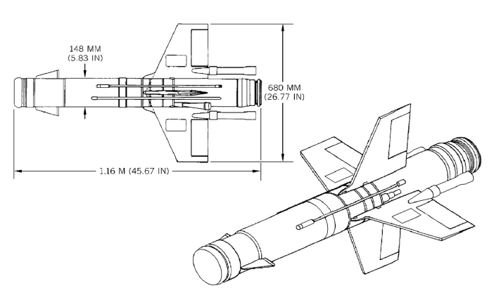 AT-2B Swatter missile line drawing from a pdf document on